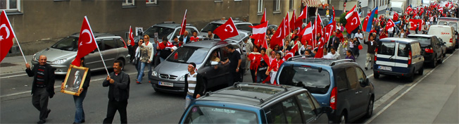 Austria Turkish day (Vienna)